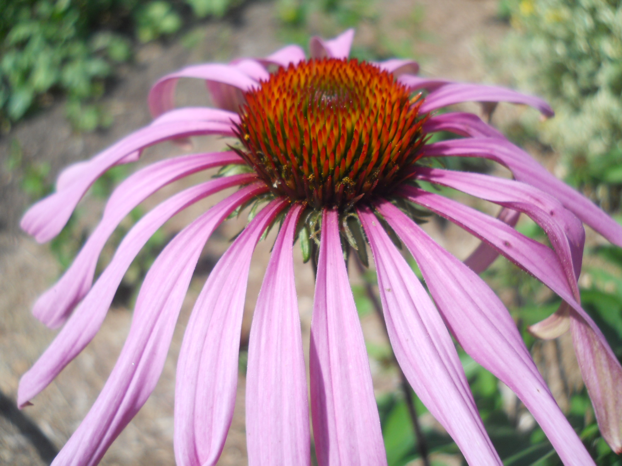 Échinacée. Nom latin : Echinacea. Famille : Asteracées